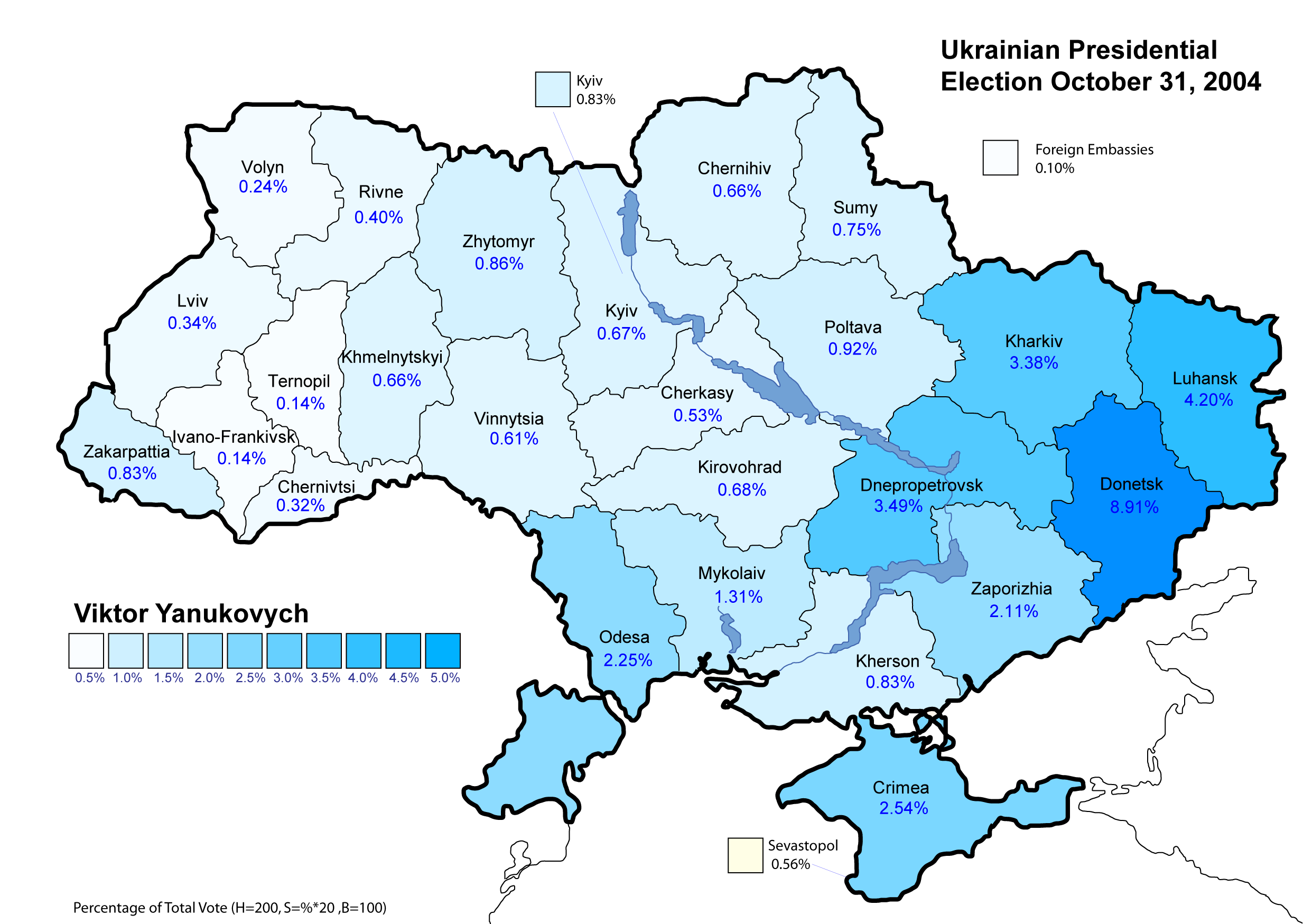 Ukrainian Presidential Election October 2004 - Viktor Yanukovych (First Round)